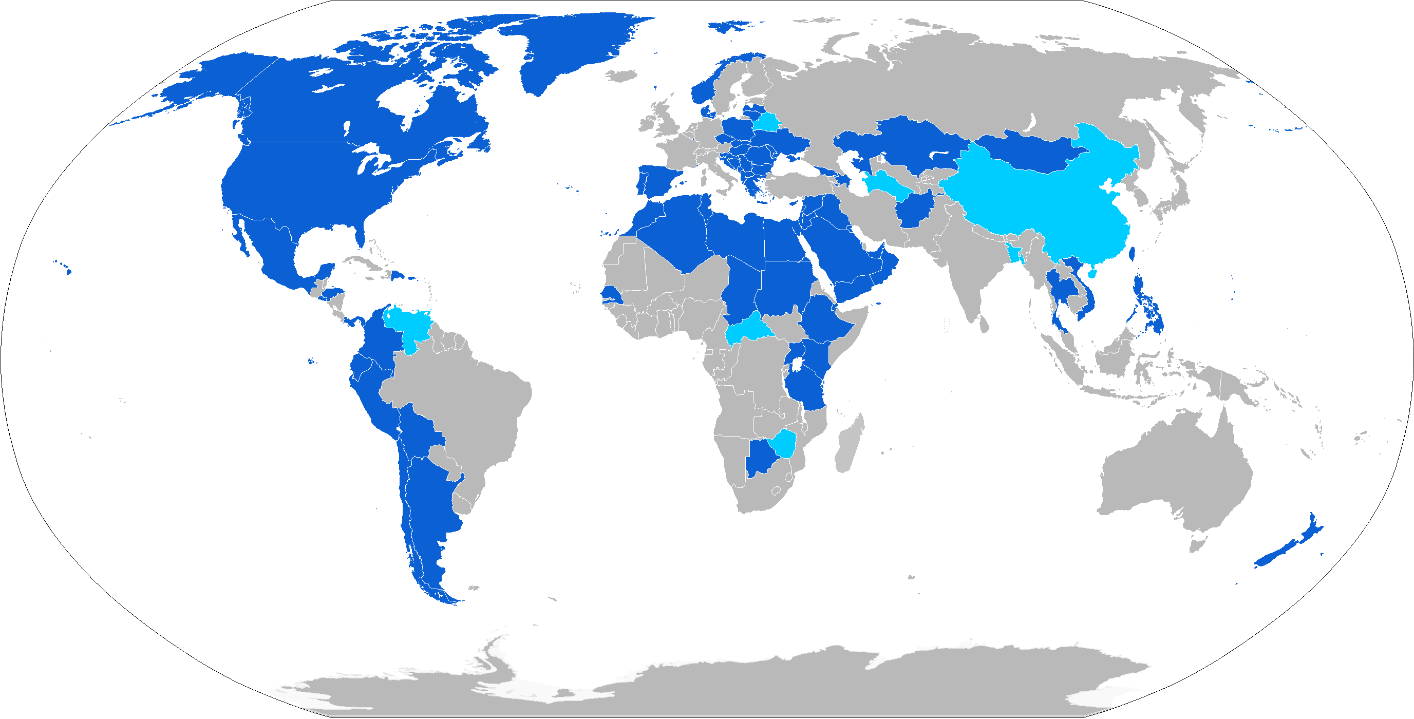 Map of HMMWV (Humvee) operators worldwide. Dark blue shows HMMWV operators, light blue shows PRC HMMWV operators